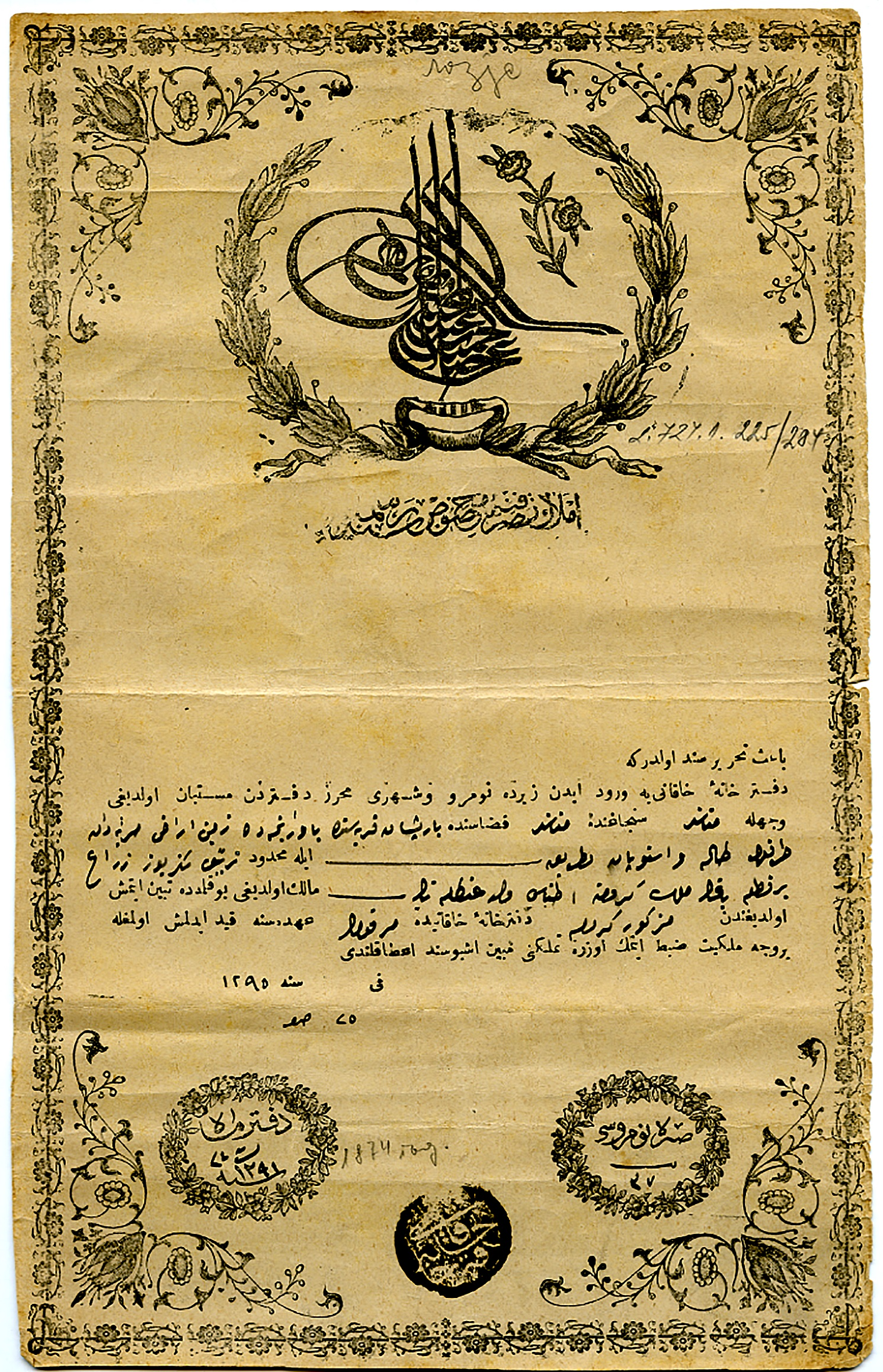 Deed of vineyard in the village Barešani, 1879. This media file is produced by Wikipedian in Residence in Category:Wikipedian in Residence at DARM in 2016.